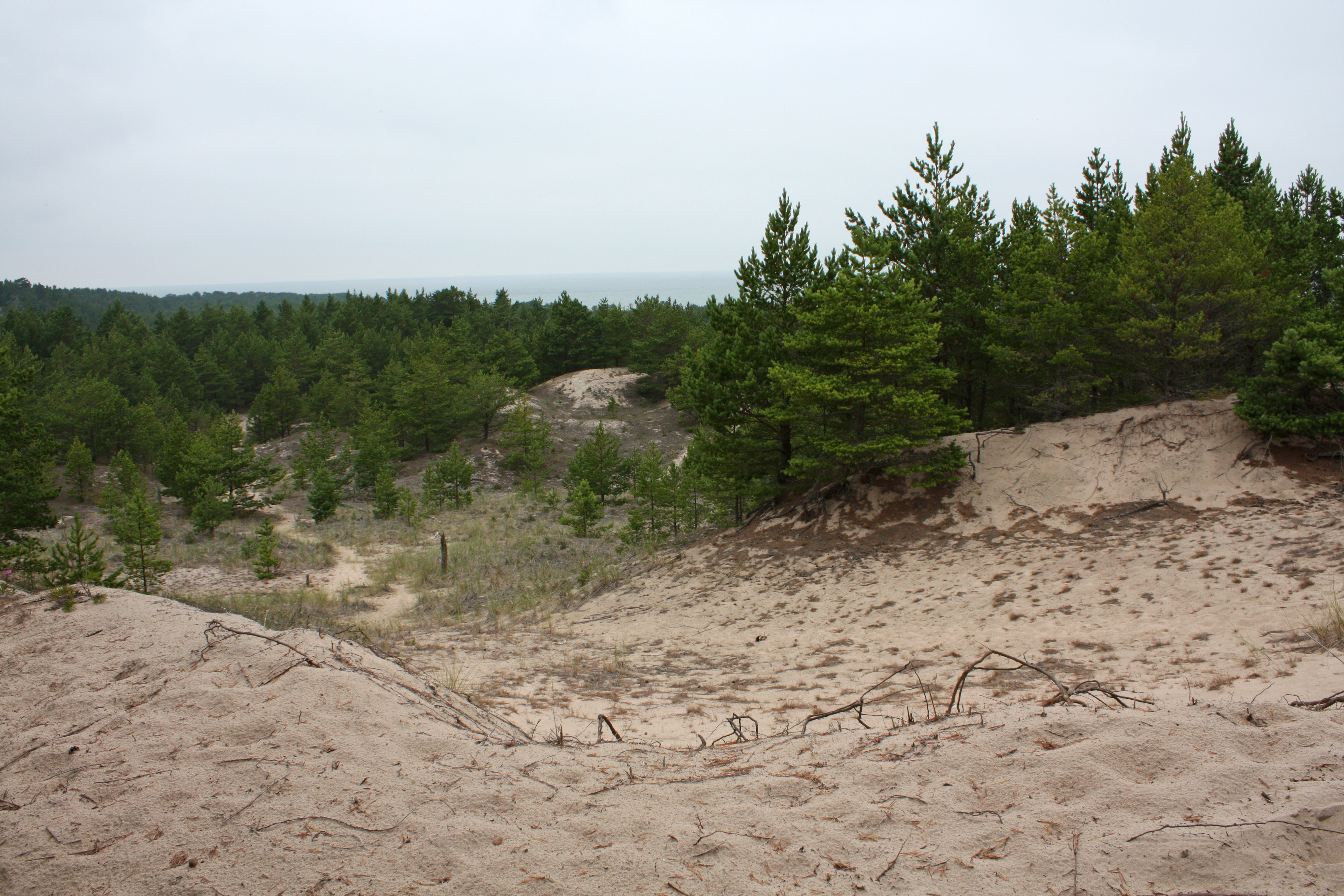 Arnagrop dunes. The "dead forest" (Döda skogen) around Arnagrop was formed by a dune recovering a previously existing forest. Now the forest has started to grow again on top.